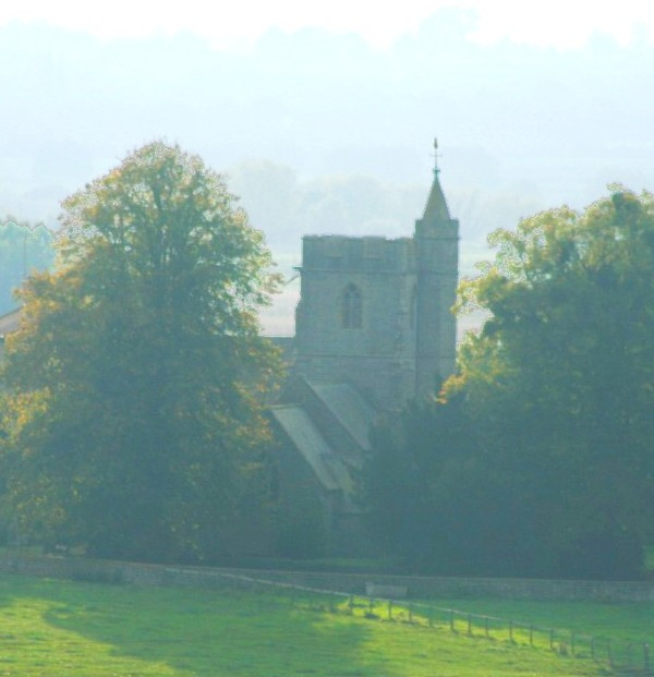 St Andrew's parish church, Aller, Somerset, seen from the northeast